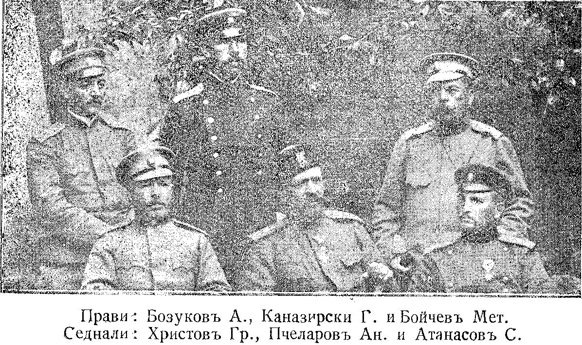 Portrait of Anton Bozukov (up in left) and other officers from Macedonian-Adrianopolitan Volunteer Corps